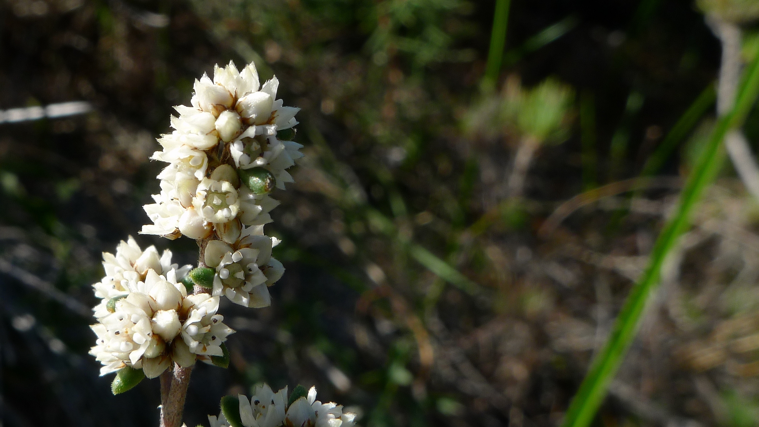 Probably Cryptandra myriantha. Talbot Road Reserve, Swan View, Western Australia, May 2012.